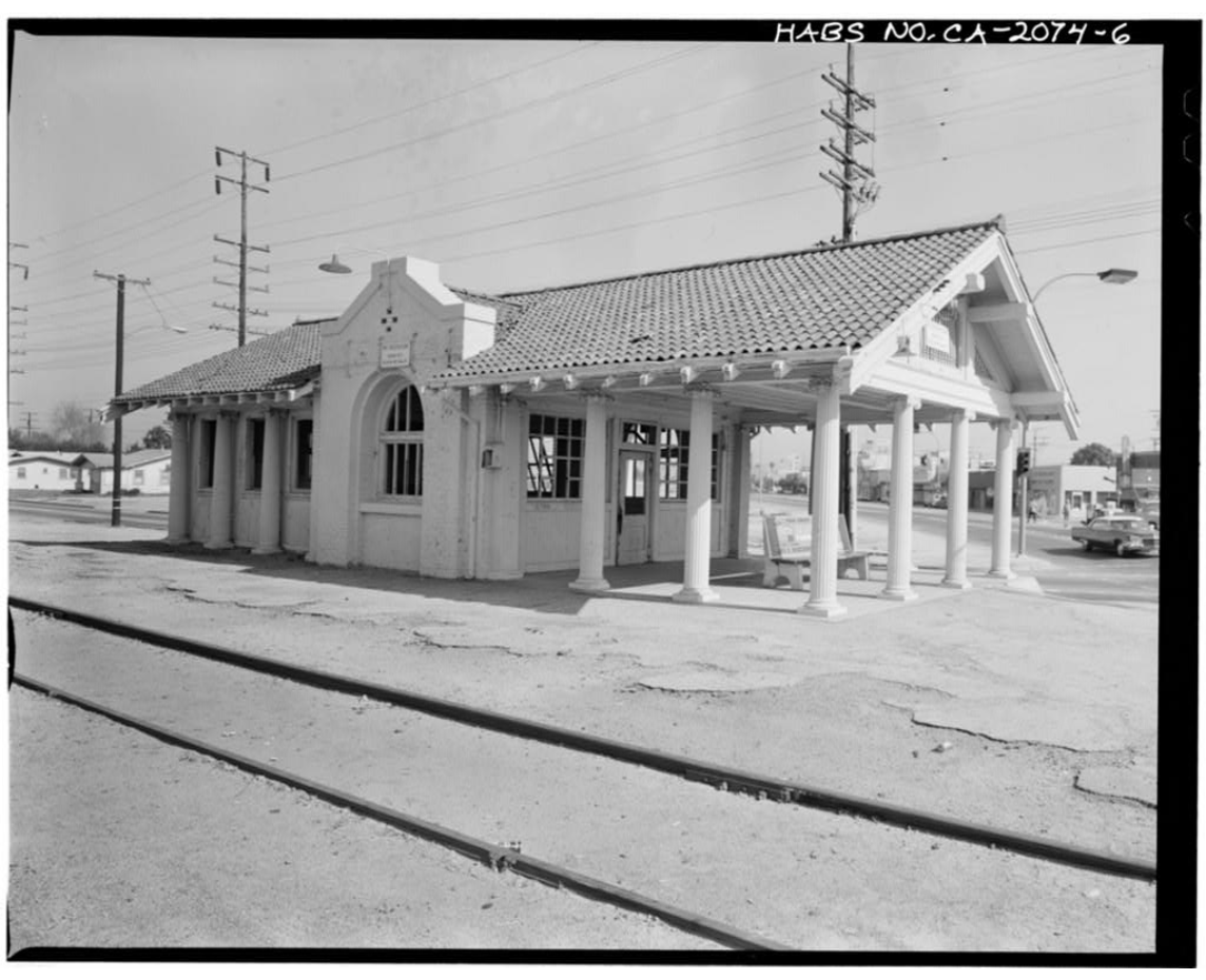 The Lynwood Pacific Electric Railway Depot at it's original location in 1933. During construction of the 105 Freeway, the structure was relocated to Lynwood Park, where it stands to this day.